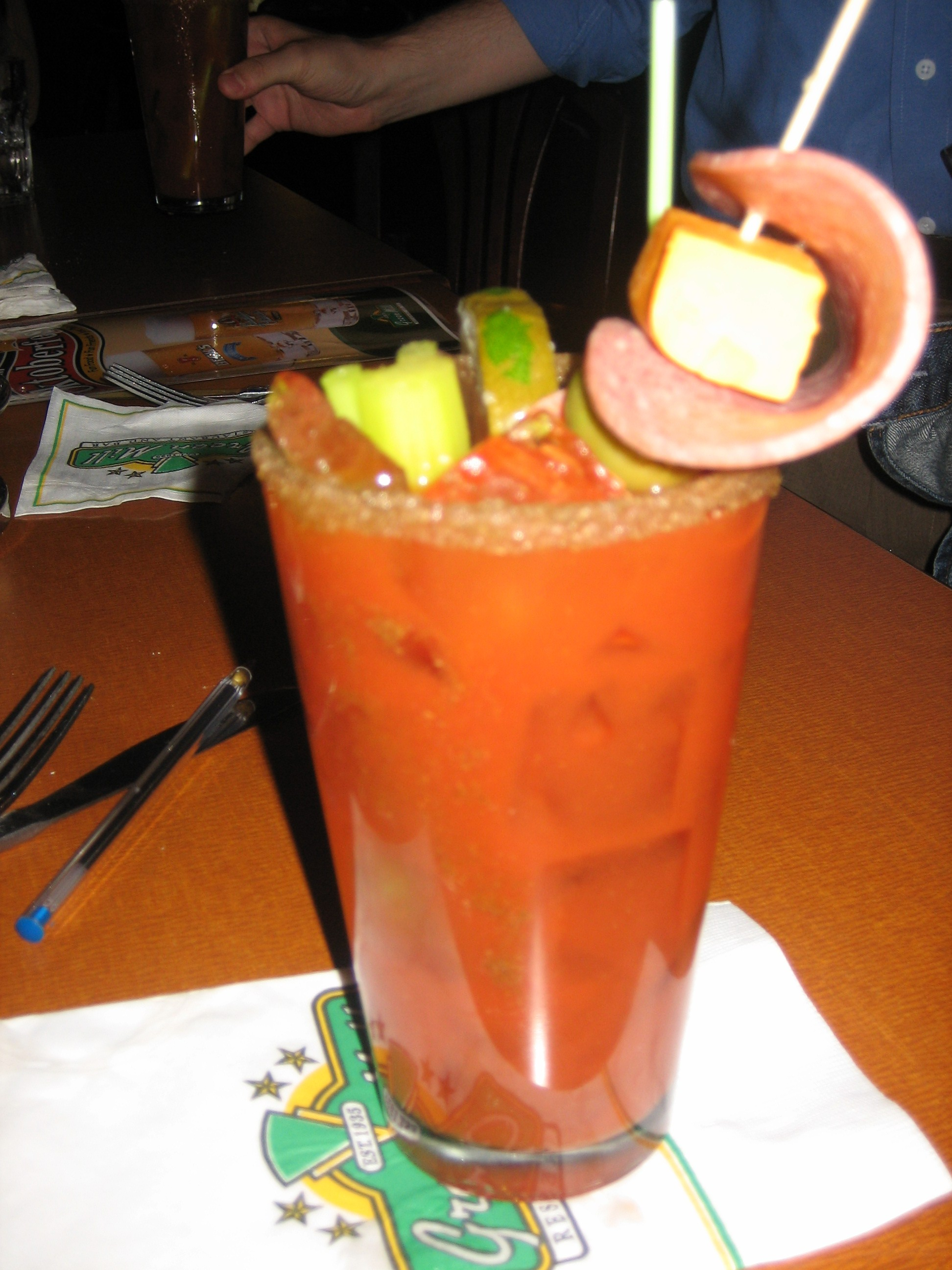 Both the largest and the meatiest bloody mary I've ever had.